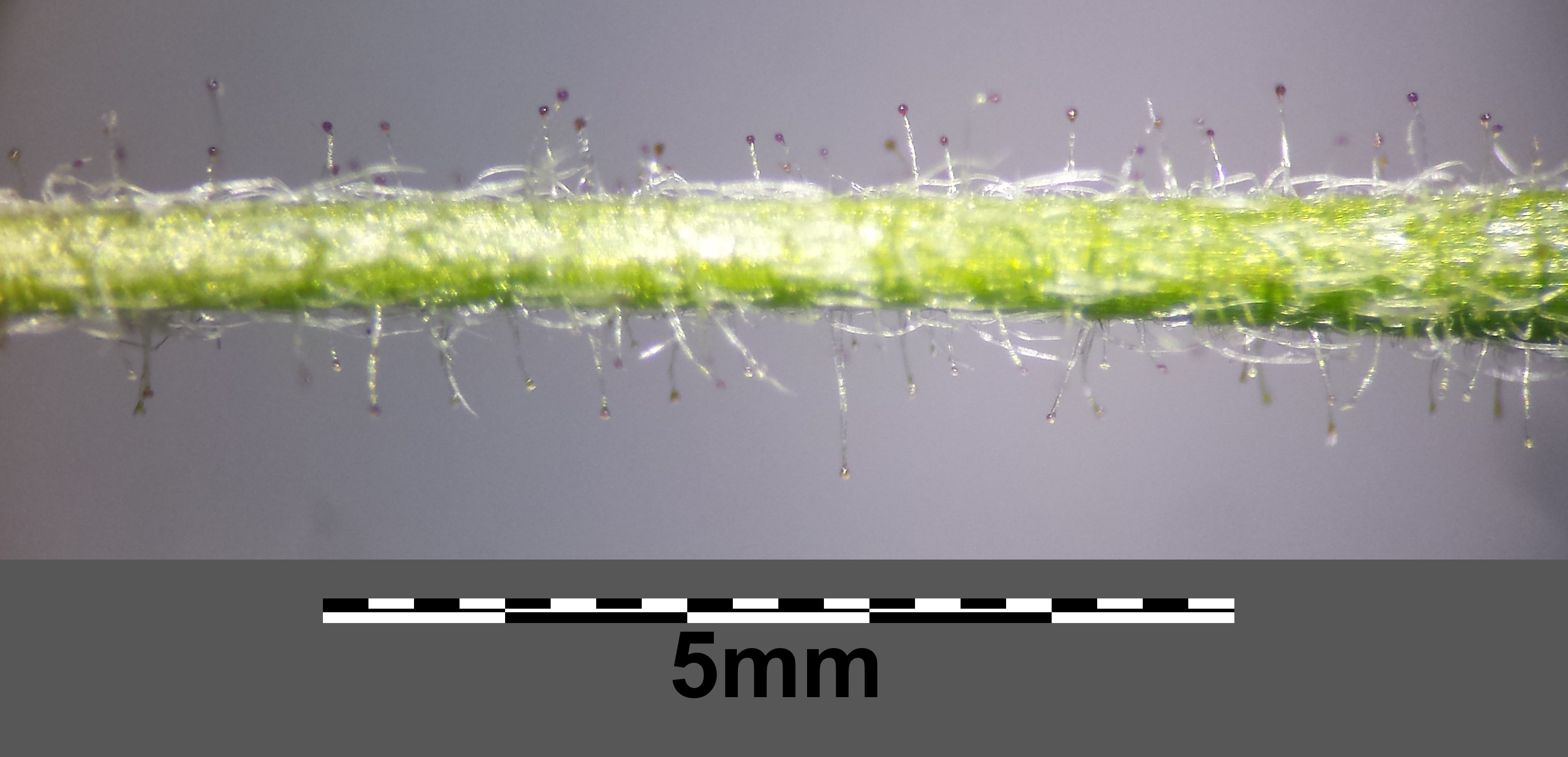 Pedicel of flower basket with gland hairs Taxonym: Galinsoga ciliata ss Fischer et al. EfÖLS 2008 ISBN 978-3-85474-187-9 Location: near Steinberg near Niederhollabrunn, district Korneuburg, Lower Austria - ca. 300 m a.s.l. Habitat: wine yard